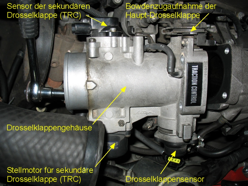 Toyota Supra MKIV Turbo Throttle Body